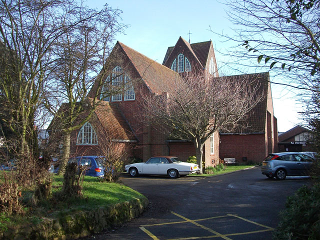 Roman Catholic Church of St Peter the Apostle, Lowestoft Road, Gorleston, Norfolk, England, seen from the southwest. Completed in 1939 and the only completed building designed by Eric Gill.